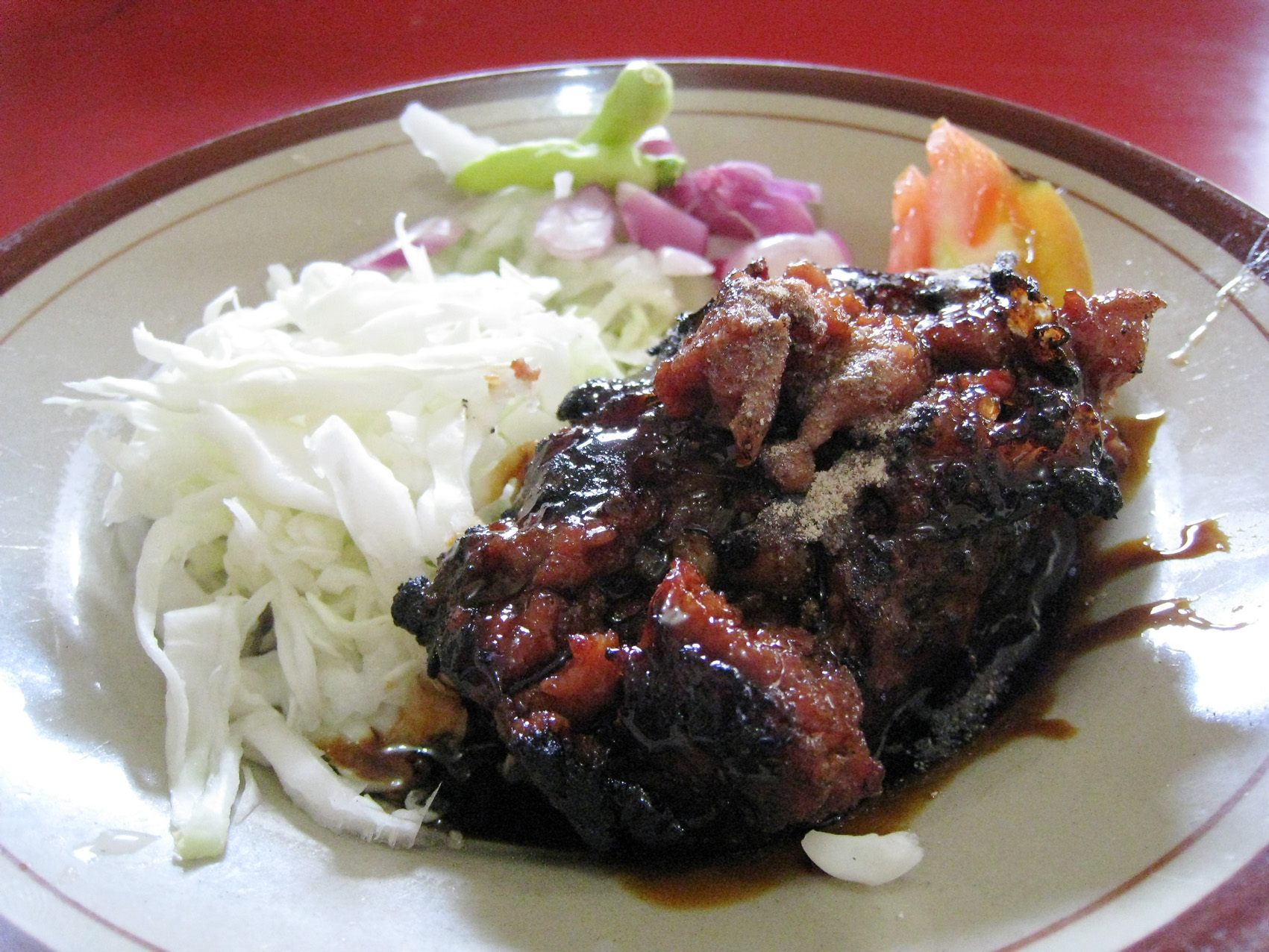 Serving of Sate Buntel (minced goat meat in muscle fibre). Served with shredded cabbages, pickles, pepper and sweet soy sauce. A specialty of Solo (Surakarta) city, Central Java, Indonesia.